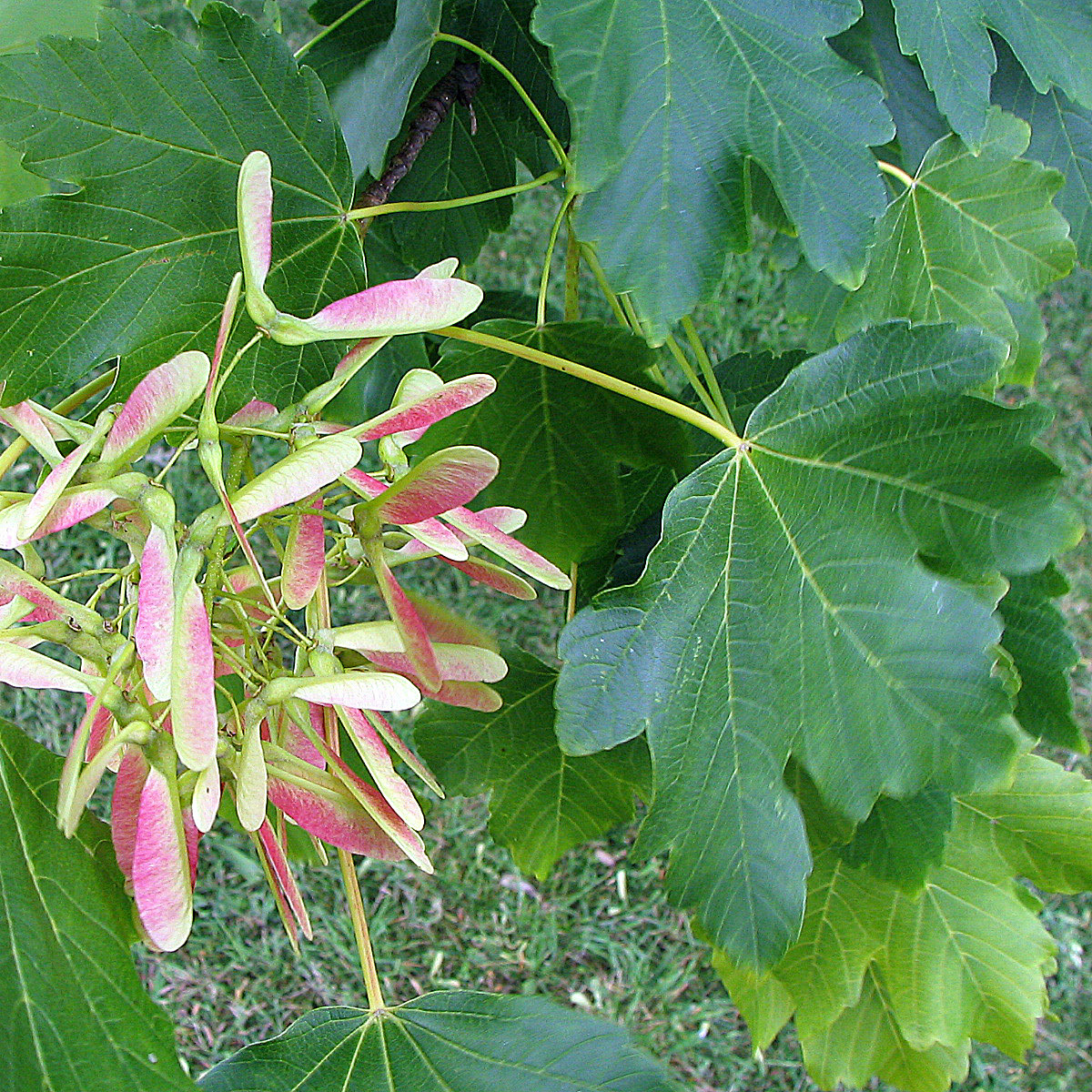 Acer velutinum leaves and samaras Kew